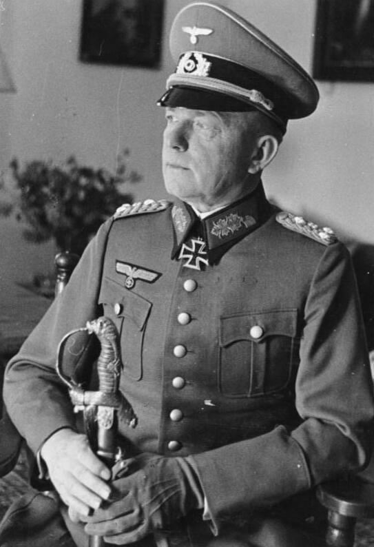 Generaloberst von Kleist, 7560-40 Information added by Wikimedia users.